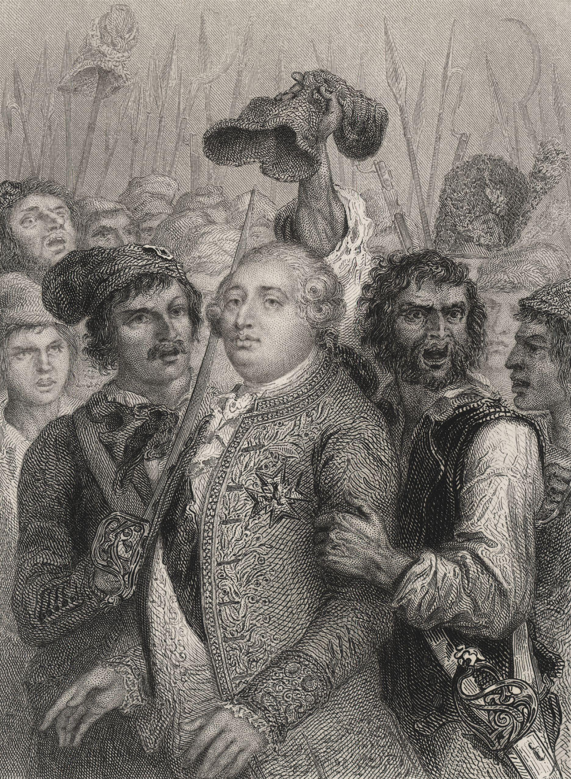 "The People at the Tuileries"; Louis XVI, King of France, given to the National Portrait Gallery, London in 1931.